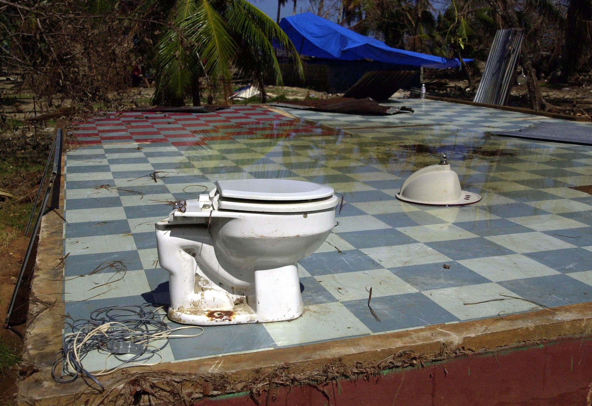 Yap, FSM, April 27, 2004 -- Homes and businesses were destroyed across the island when Typhoon Sudal sent high winds and waters ashore. Photo By John Shea / FEMA News Photo